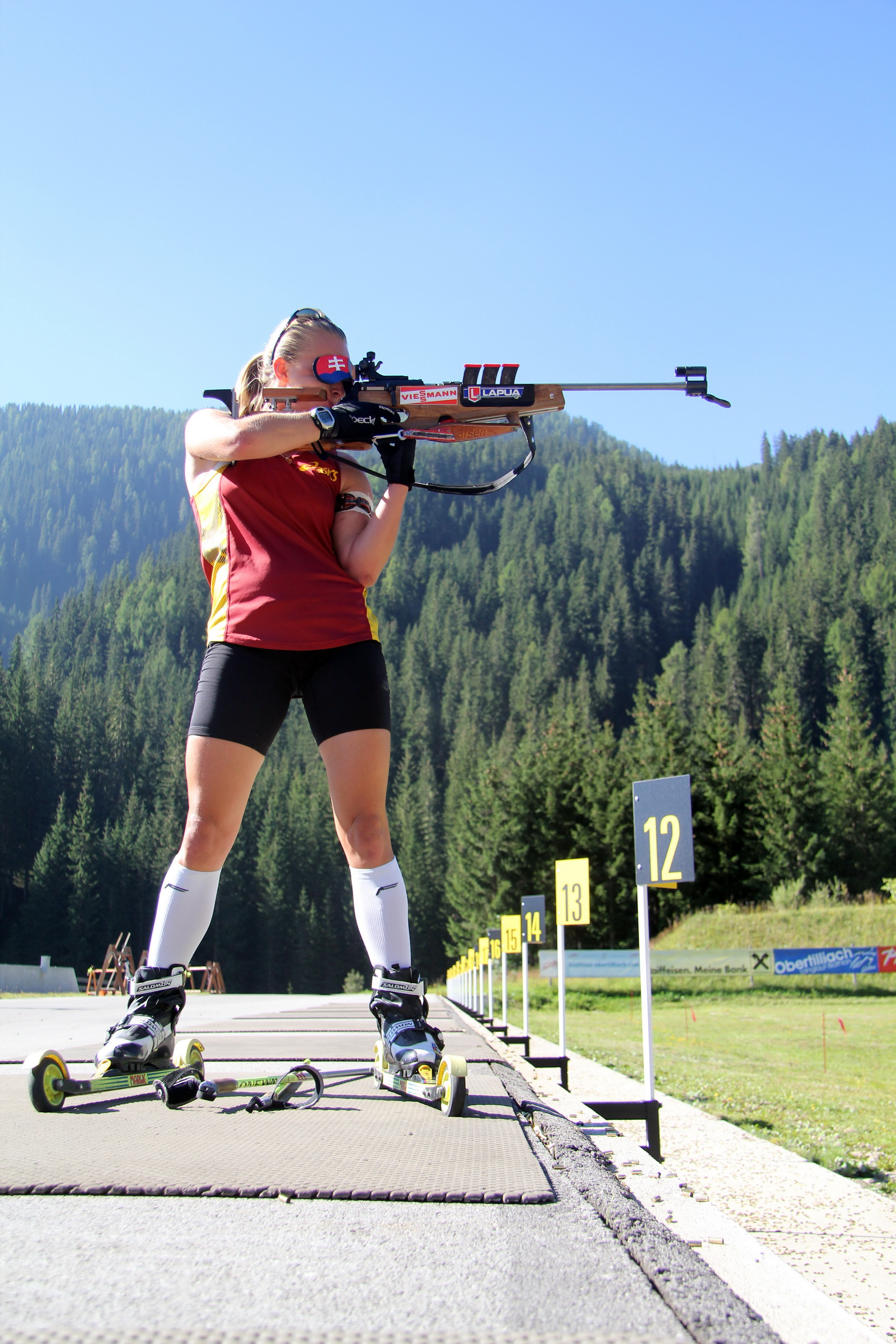 Natália Prekopová at Biathlon summer training 2012 in Obertilliach